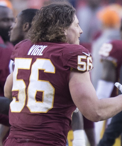 Broncos at Redskins 12/24/17